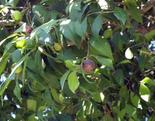 Guabiyú (Eugenia pungens)